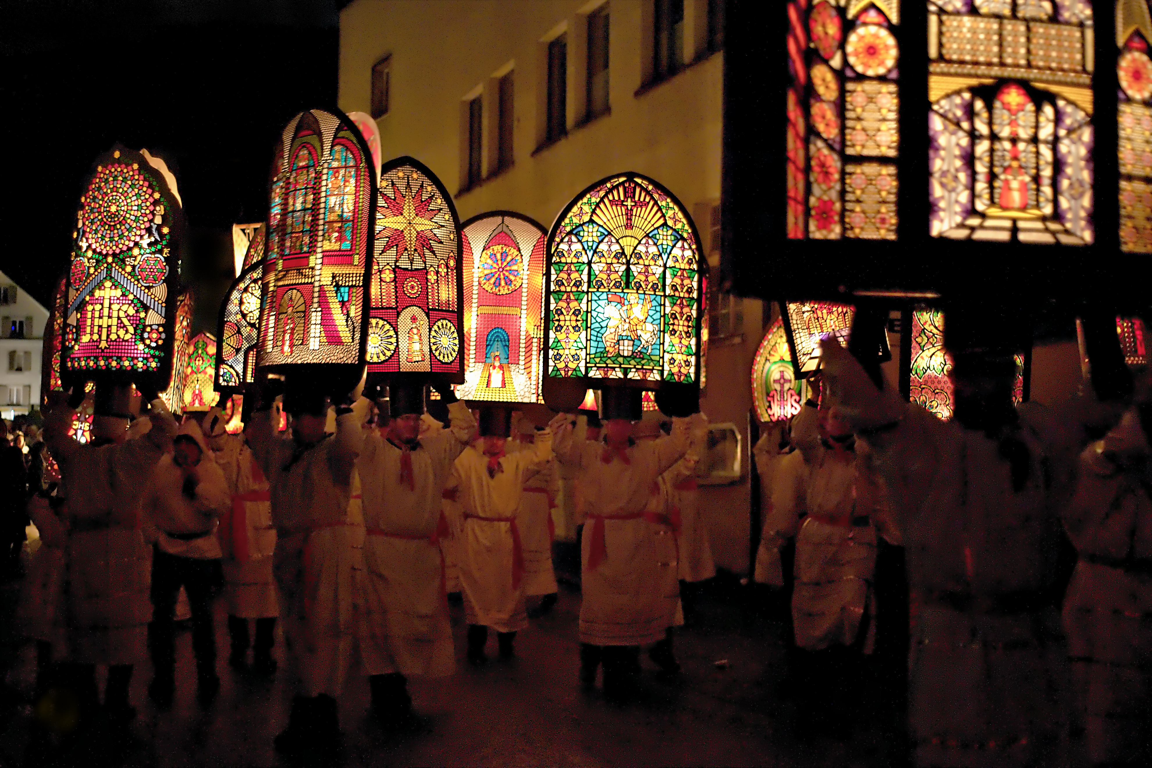 The Klausjagen ("Nicholas chase") festival takes place in the Swiss town of Küssnacht on the eve of St. Nicholas Day. The image shows men wearing Iffelen or Infuln, which are enormous, incredibly ornate paper / wood hats which resemble a cross between a bishop's mitre and a stained glass window, lit from the inside by candles, and as much as seven feet tall. (Description from english Wikipedia article)